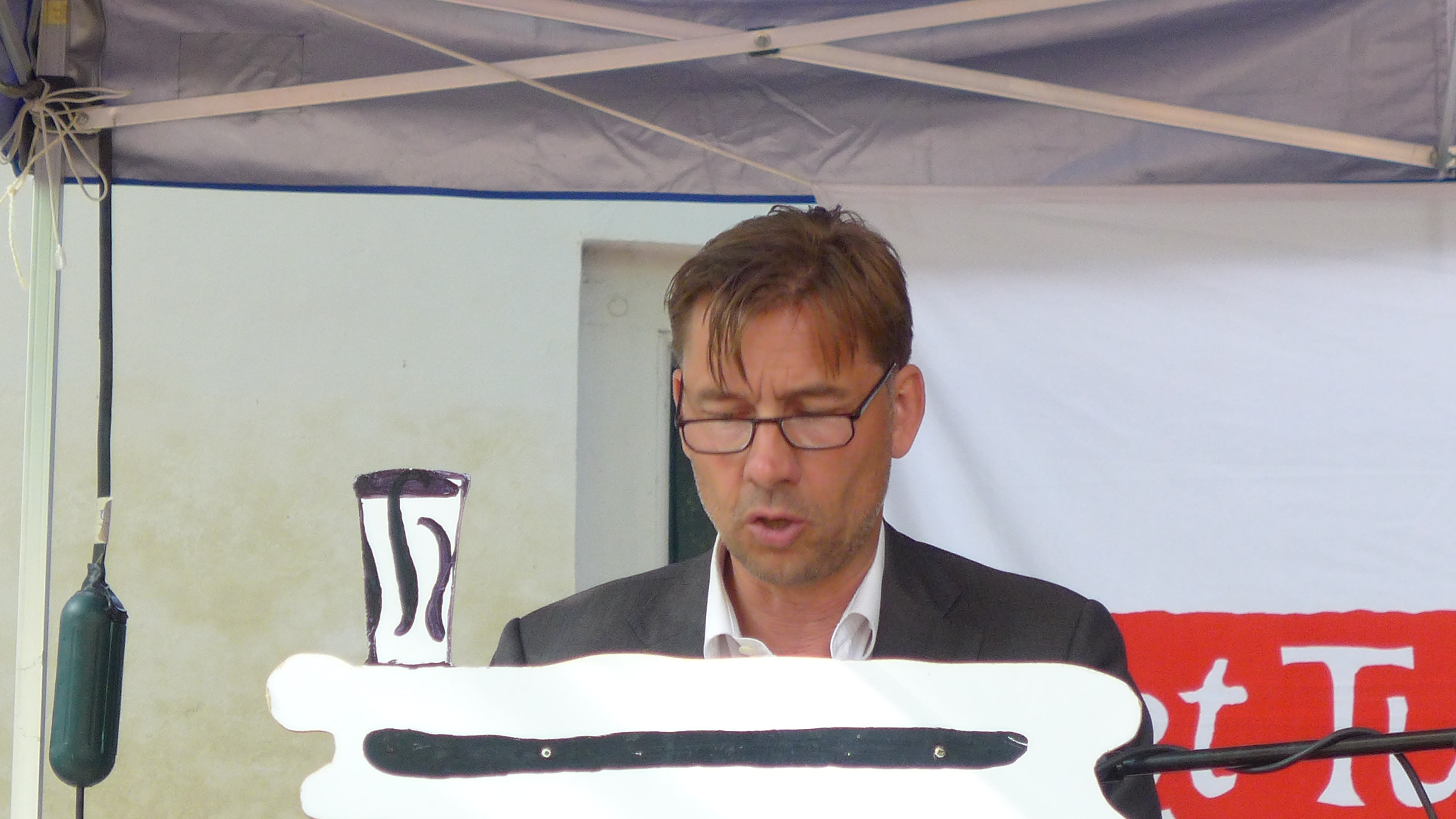 Maarten Doorman recites poems at the poetry festival 'Het Tuinfeest', Deventer, August 3 2013